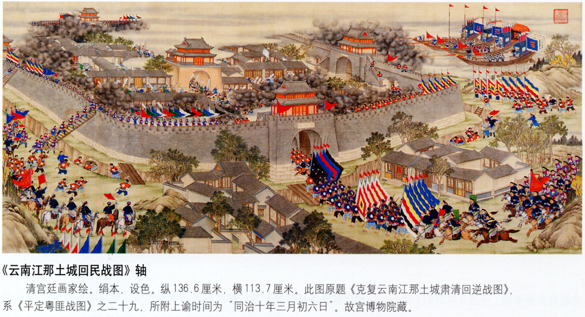 A battle of the Panthay Rebellion (1856–1873)